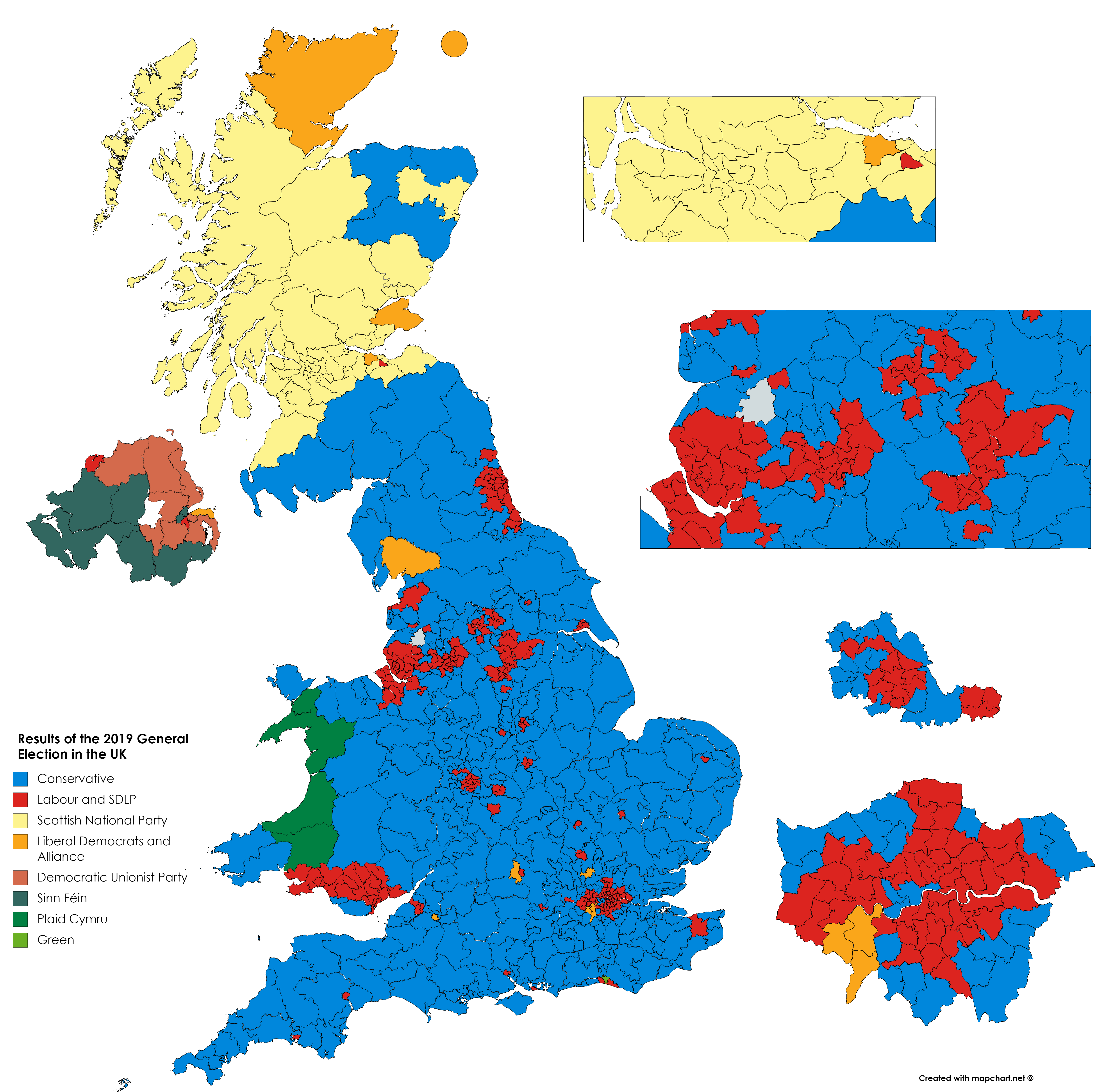 Based off of